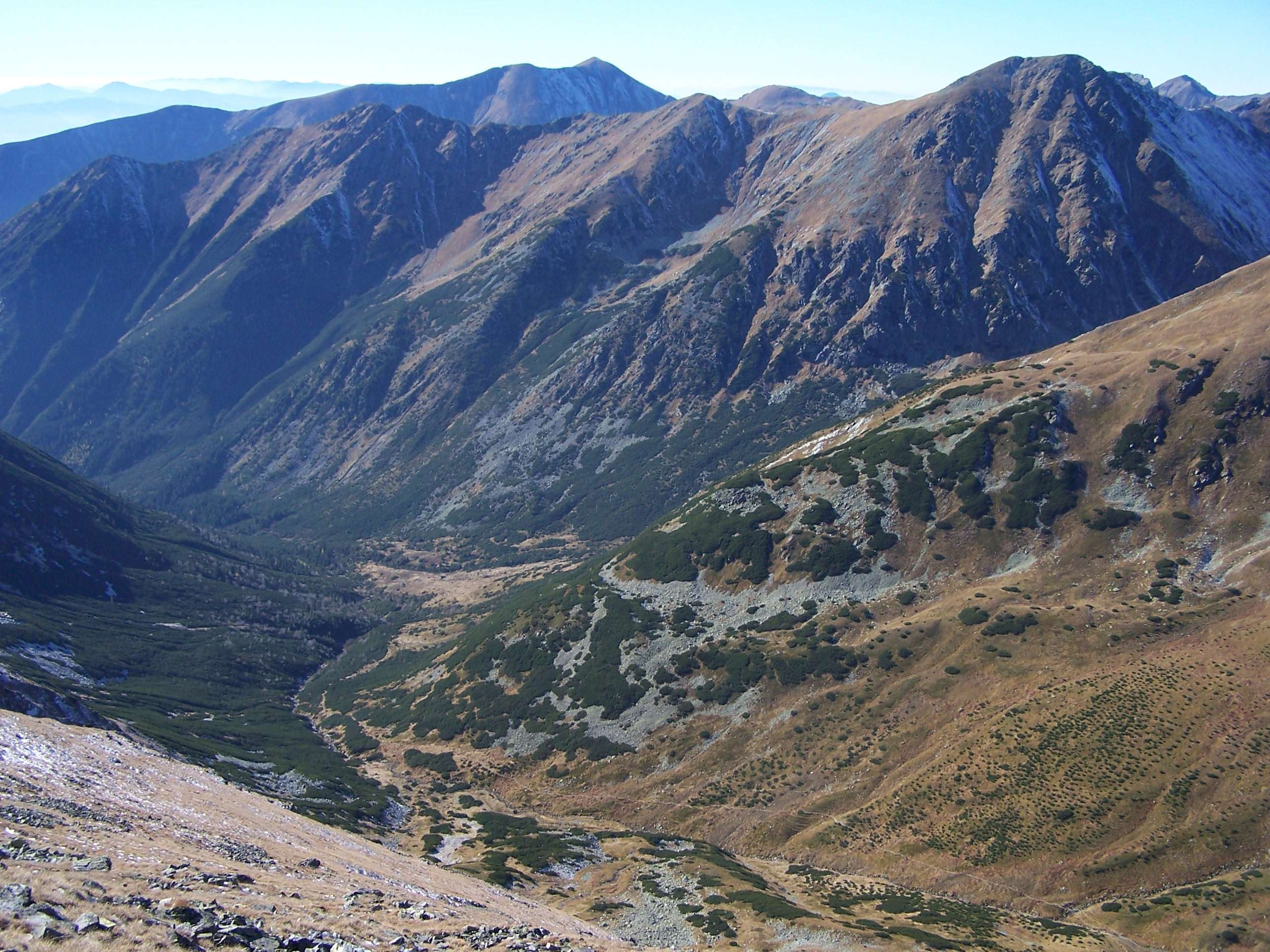 Dolina Gaborova (West Tatra Mountains)